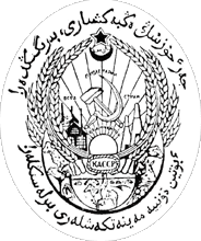 The coat of arms of the Kazakh ASSR, from 1927 until 1930 when Karakalpak Autonomous Region was separated from Kazakh ASSR.